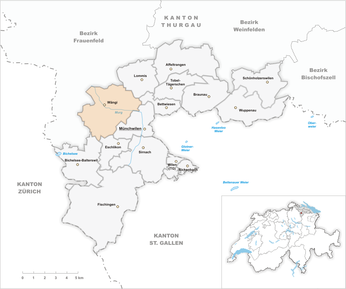 Municipality Wängi